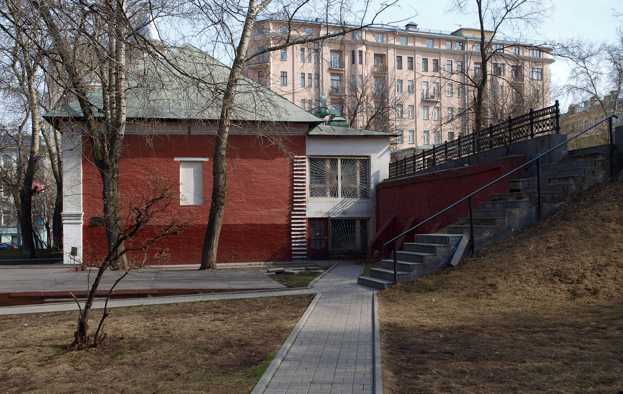 Moscow, Ostozhenka Street.